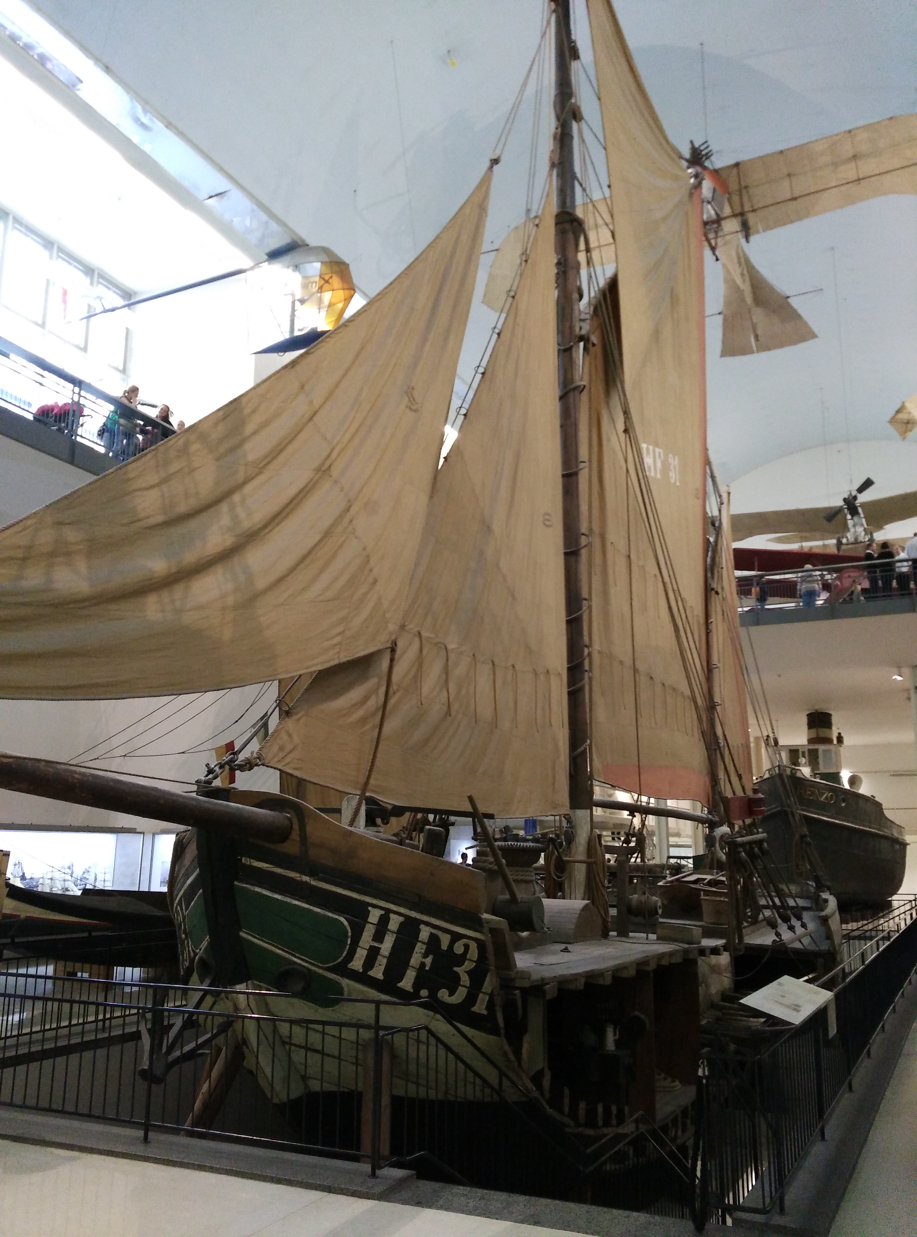 Barge on display in the Deutsches Museum